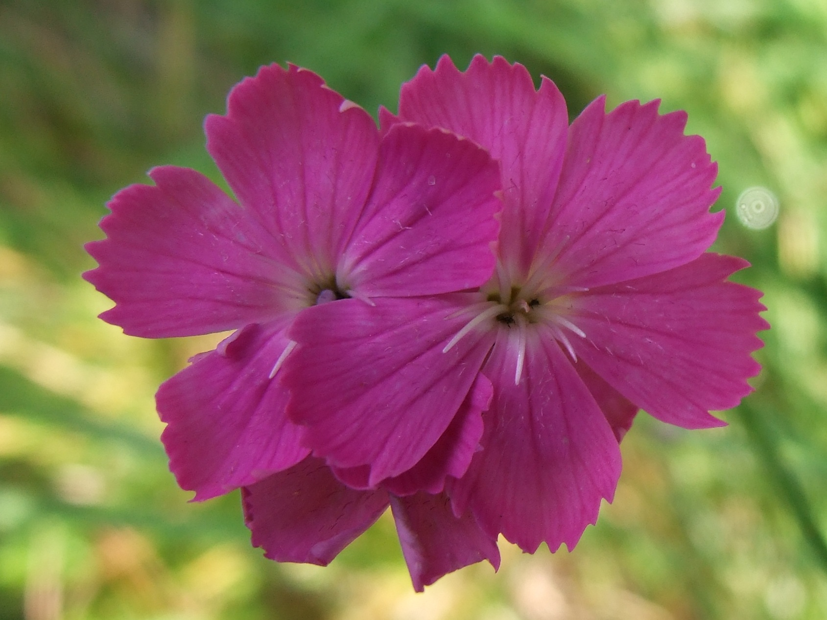 Dianthus carthusianorum subsp. alpestris (pl. goździk kartuzek), habitat: Dolina Rohacka, West Tatra Mountains